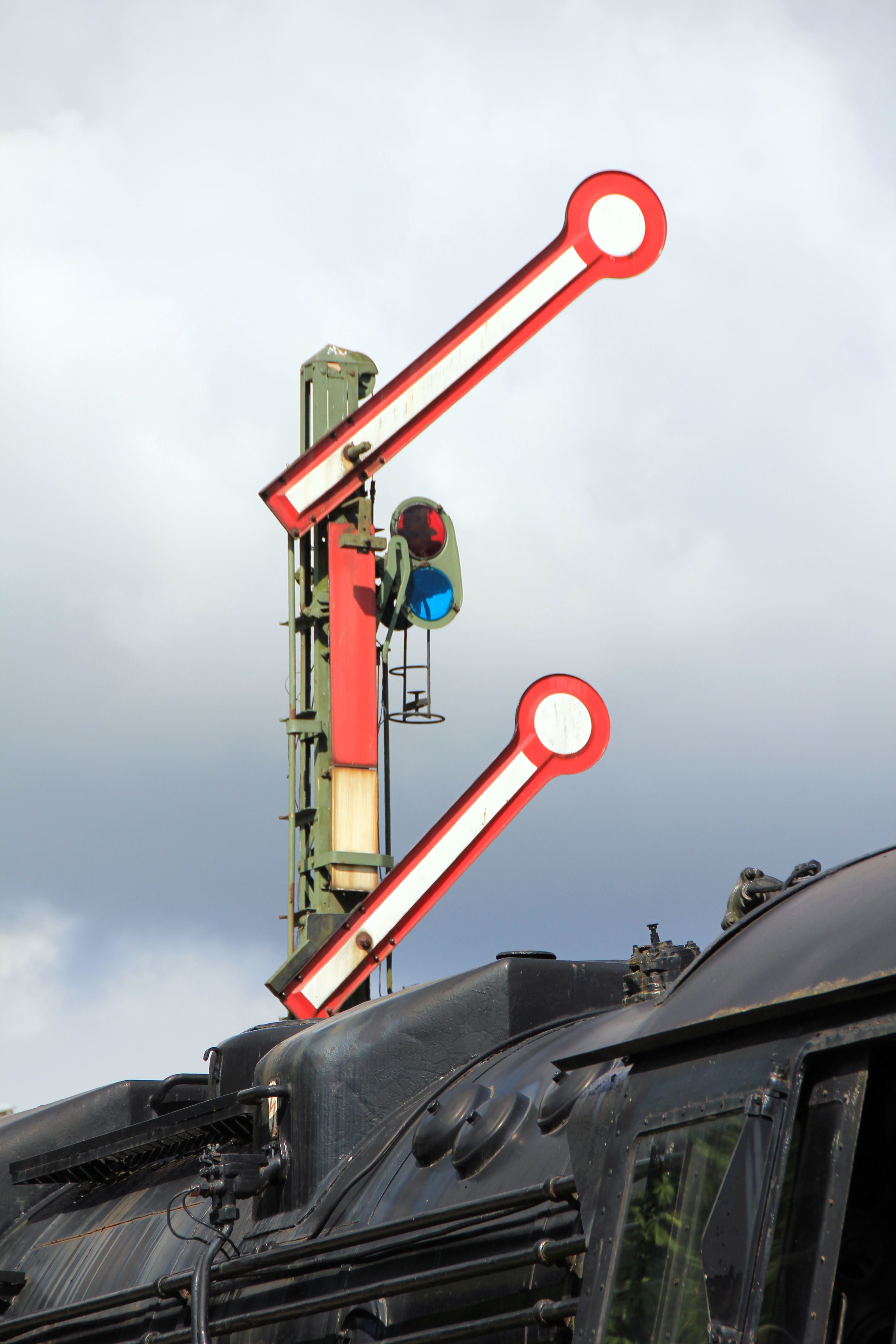 semaphore signal behind steam locomotive. public domain